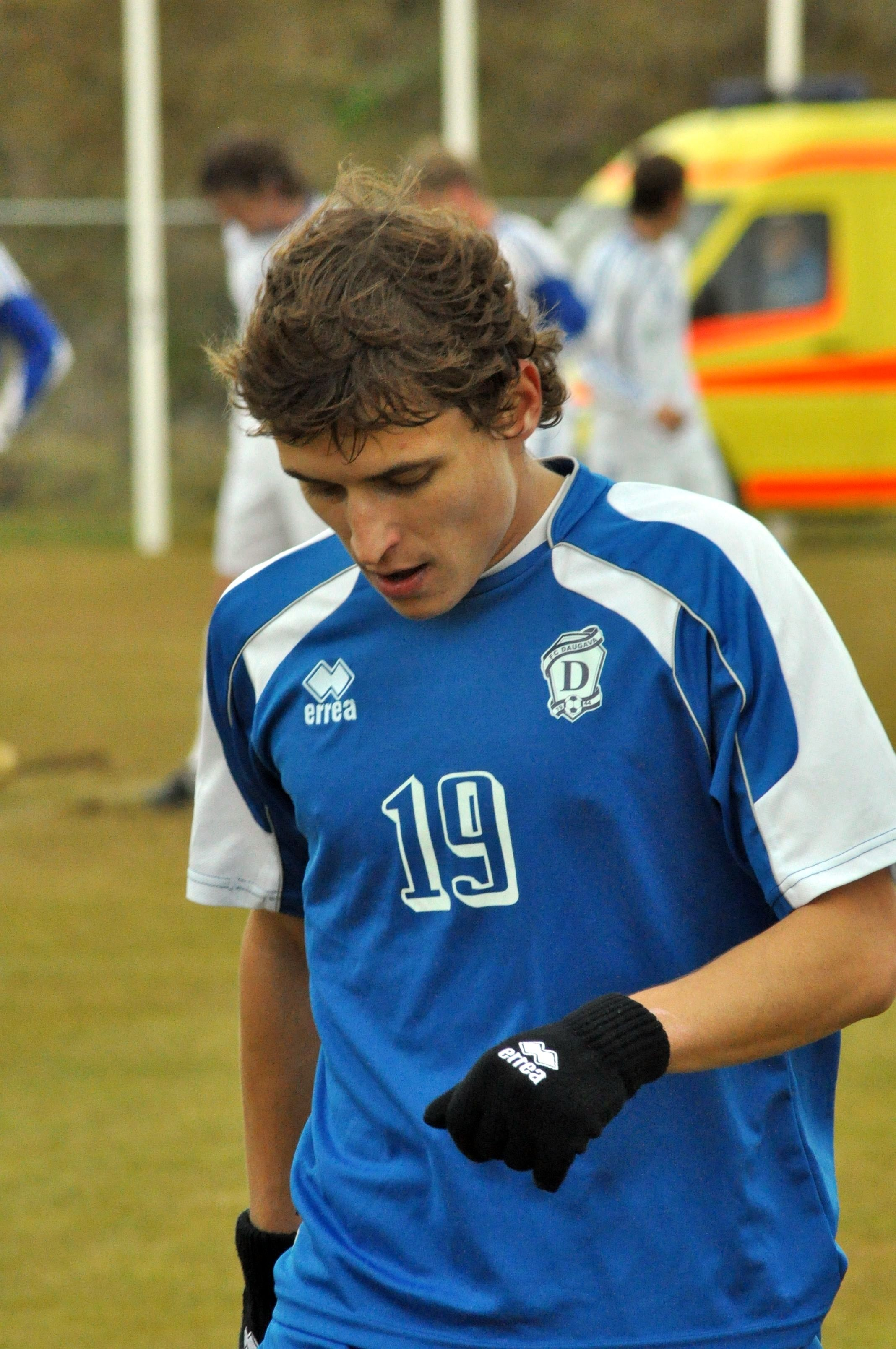 Valērijs Afanasjevs, Latvian football player.